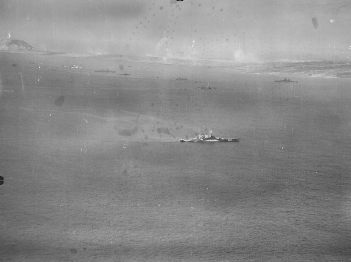 USS North Carolina (BB-55) off Iwo Jima while supporting the invasion of that island, circa 19-22 February 1945. Three cruisers and the battleship Idaho are in the background, with Iwo Jima beyond. Mount Suribachi is in the far left.